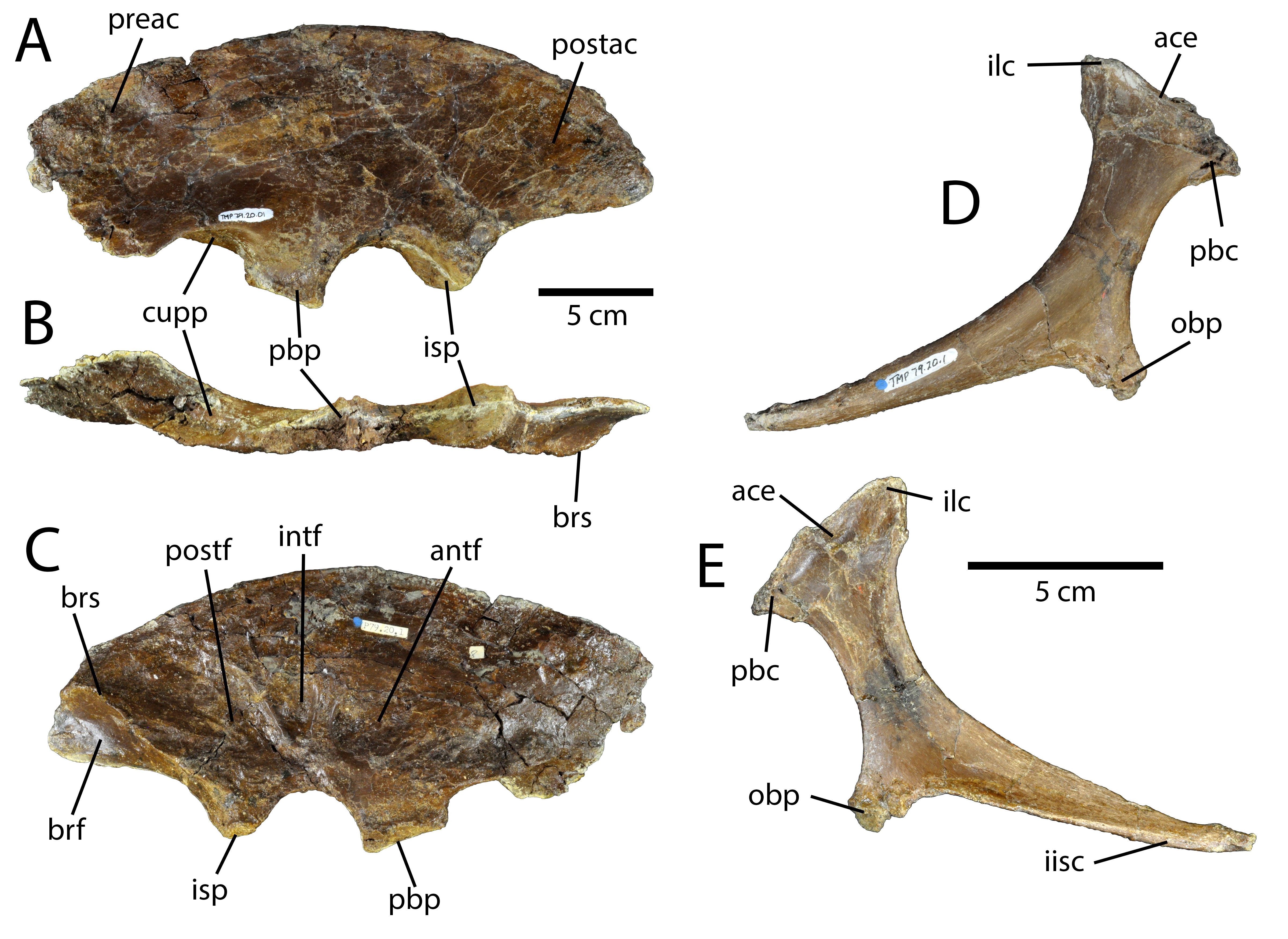 TMP 1979.020.0001, pelvic elements of Chirostenotes pergracilis. Left ilium in lateral (A), ventral (B), and medial(C) views. Right ischium in lateral (D) and medial (E) views. Abbreviations: ace, acetabulum; antf, anterior fossa; brf, brevisfossa; brs, brevis shelf; cupp, cuppedicus fossa; iisc, interischiadic contact; ilc, iliac contact; intf, intermediate fossa;isp, ischiadic peduncle; obp, obturator process; pbc, pubic contact; pbp, pubic peduncle; postf, posterior fossa; postac,postacetabular process; preac, preacetabular process.